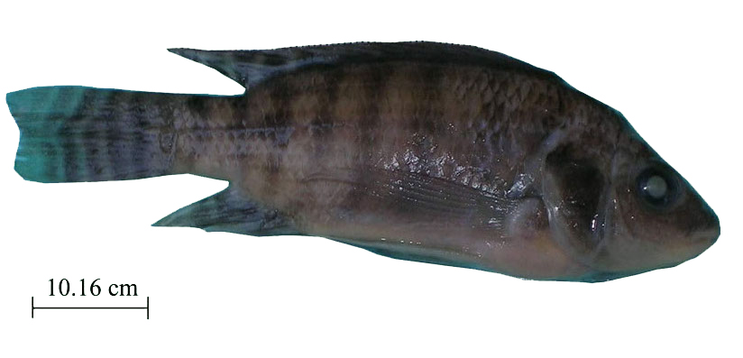 A fresh water fish species from Kathani river of Wainganga basin from the Gadchiroli district of Maharashtra state India.